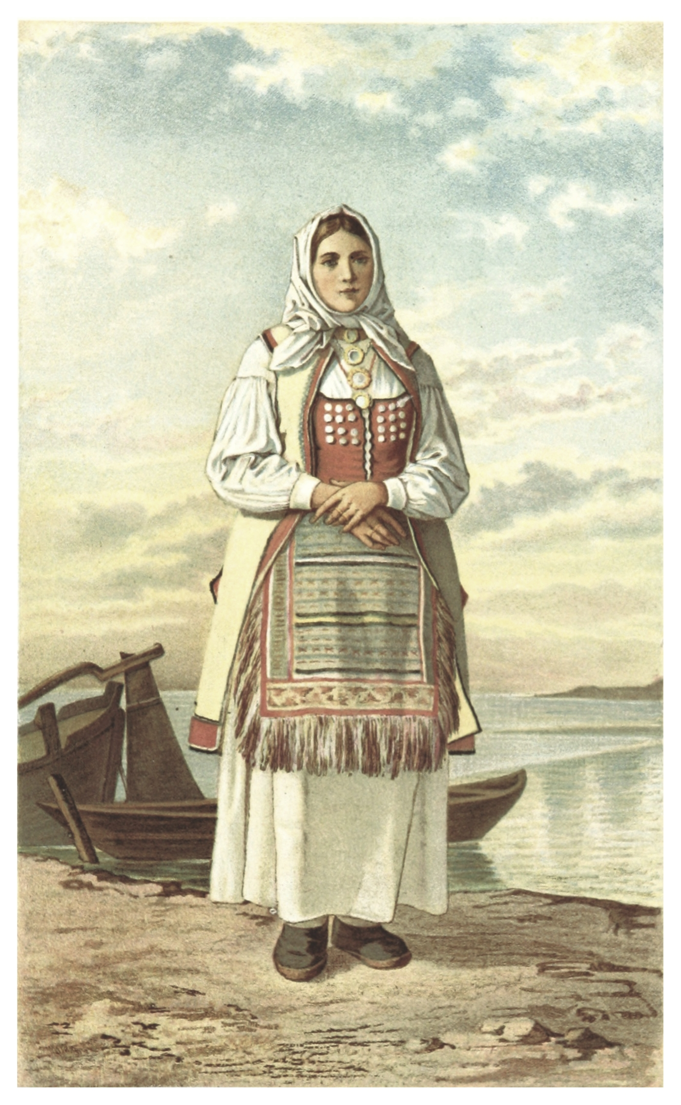 Image extracted from page 31 of Die Serben an der Adria. Ihre Typen und Trachten. (1870) by Louis Salvator, Erzherzog von Österreich. Original held and digitised by the British Library. Copied from Flickr. Note: The colours, contrast and appearance of these illustrations are unlikely to be true to life. They are derived from scanned images that have been enhanced for machine interpretation and have been altered from their originals.